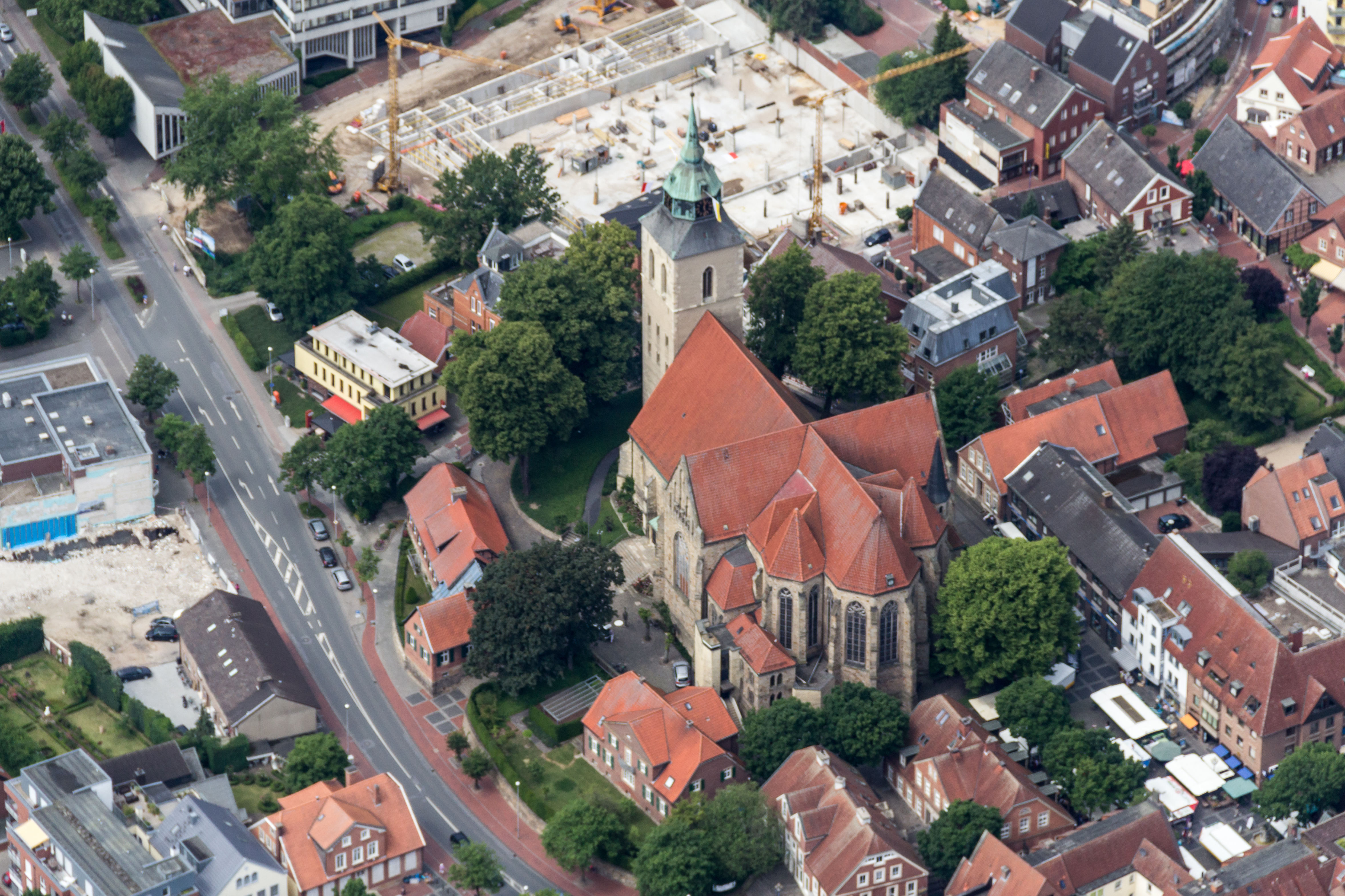 St. Martinus Church, Greven, North Rhine-Westphalia, Germany